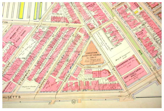 Detail of map of Boston, Massachusetts, in 1908, showing Chickering Hall, Horticultural Hall, etc.